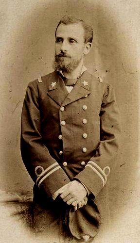 Alfonso Maria Massari's portrait